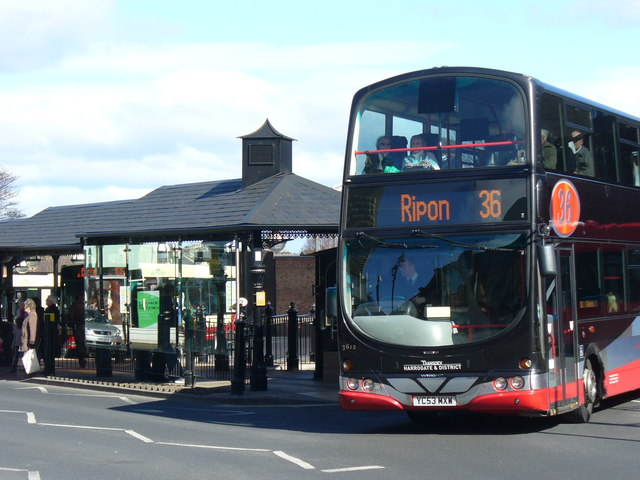 Transdev Harrogate & District bus 3612 (YC53 MXW), a Volvo B7TL/Wright Eclipse Gemini, in route 36 livery, on route 36 in Harrogate Bus Station, North Yorkshire.